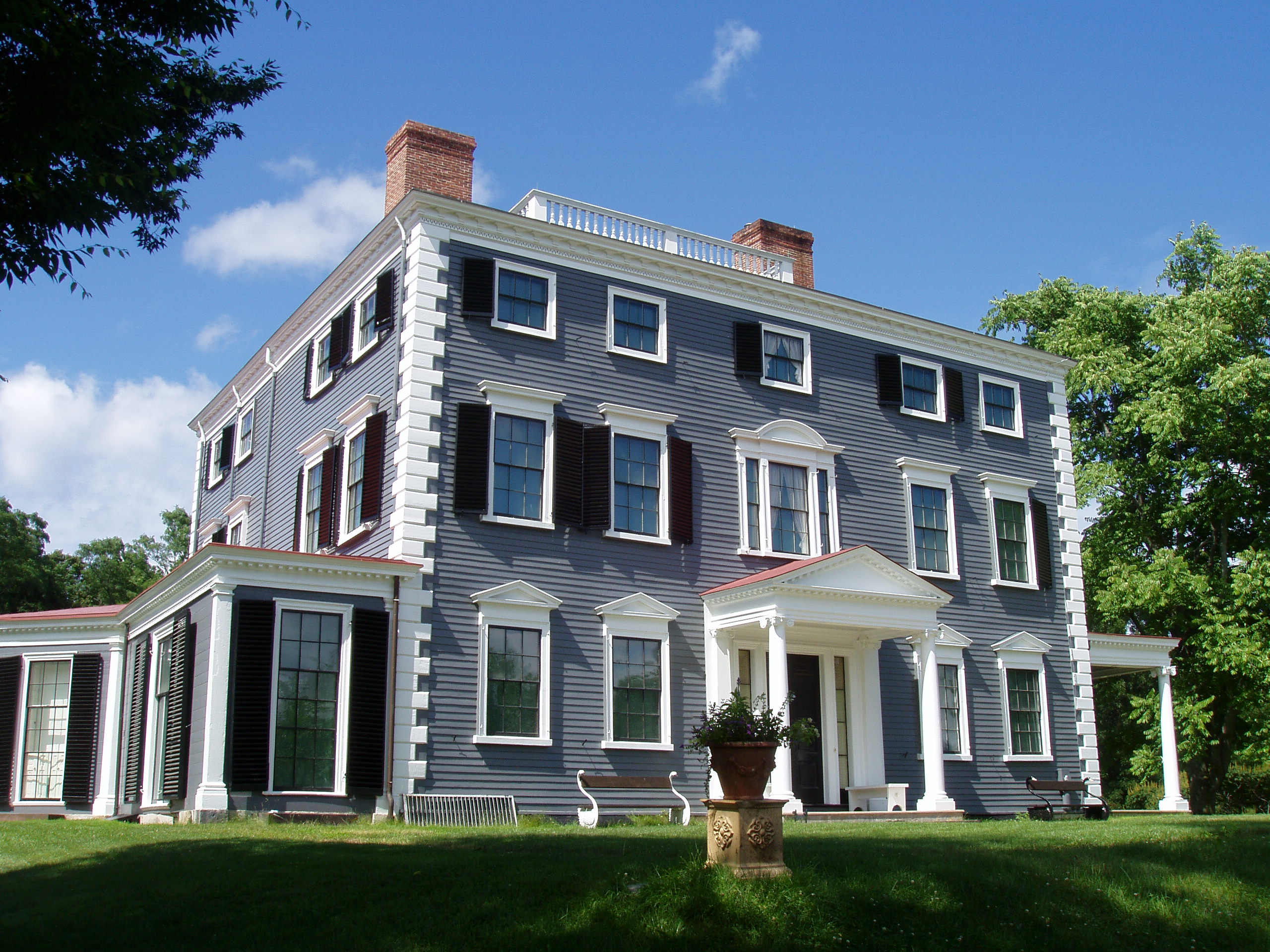 Codman House, Lincoln, Massachusetts. Owned by Historic New England (originally the Society for the Preservation of New England Antiquities).